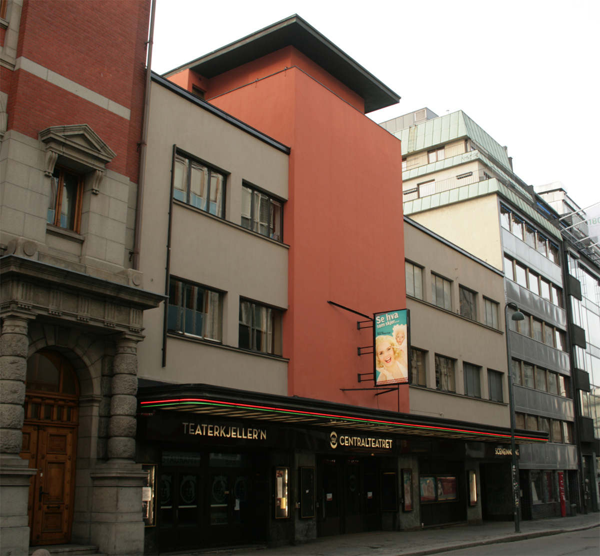 Centralteatret (theatre building) in Akersgata, Oslo